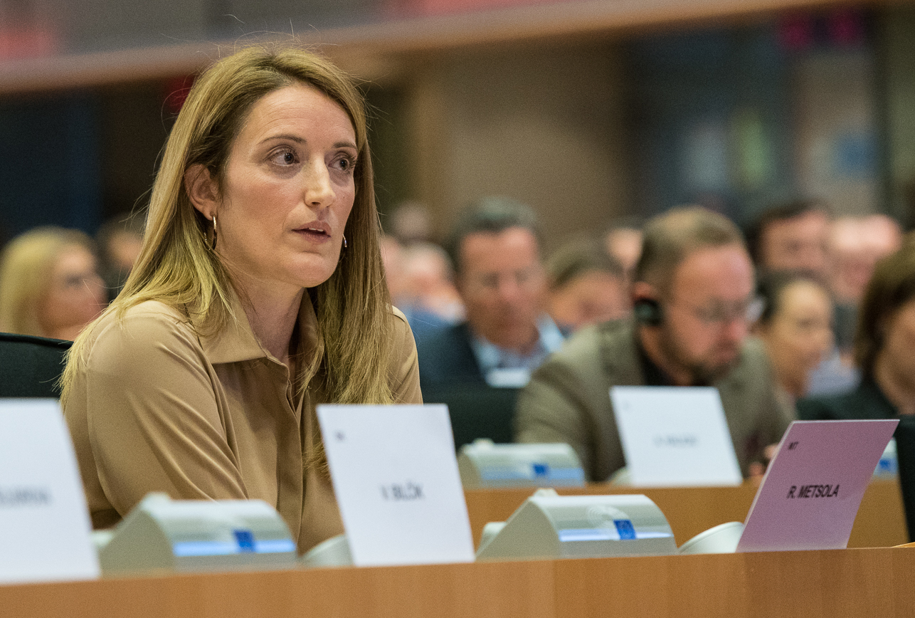 Before the European Parliament can vote the new European Commission led by Ursula von der Leyen into office, parliamentary committees will assess the suitability of commissioners-designate. On 23-26 May, more than 200,000,000 people in 28 EU countries went to the polls to elect members of the European Parliament, giving them a strong democratic mandate, including voting into office the new European Commission and examining the competencies and abilities of its commissioners-designate. Elected members of the European Parliament will also listen to their ideas and will assess their willingness to take concrete actions on the issues that Europeans care about. Each candidate commissioner is invited for a live-streamed, three-hour hearing in front of the committee or committees responsible for their proposed portfolio. The hearings will take place between Monday 30 September and Tuesday 8 October. This photo is free to use under Creative Commons license CC-BY-4.0 and must be credited: "CC-BY-4.0: © European Union 2019 – Source: EP". No model release form if applicable. For bigger HR files please contact: webcom-flickr(AT)